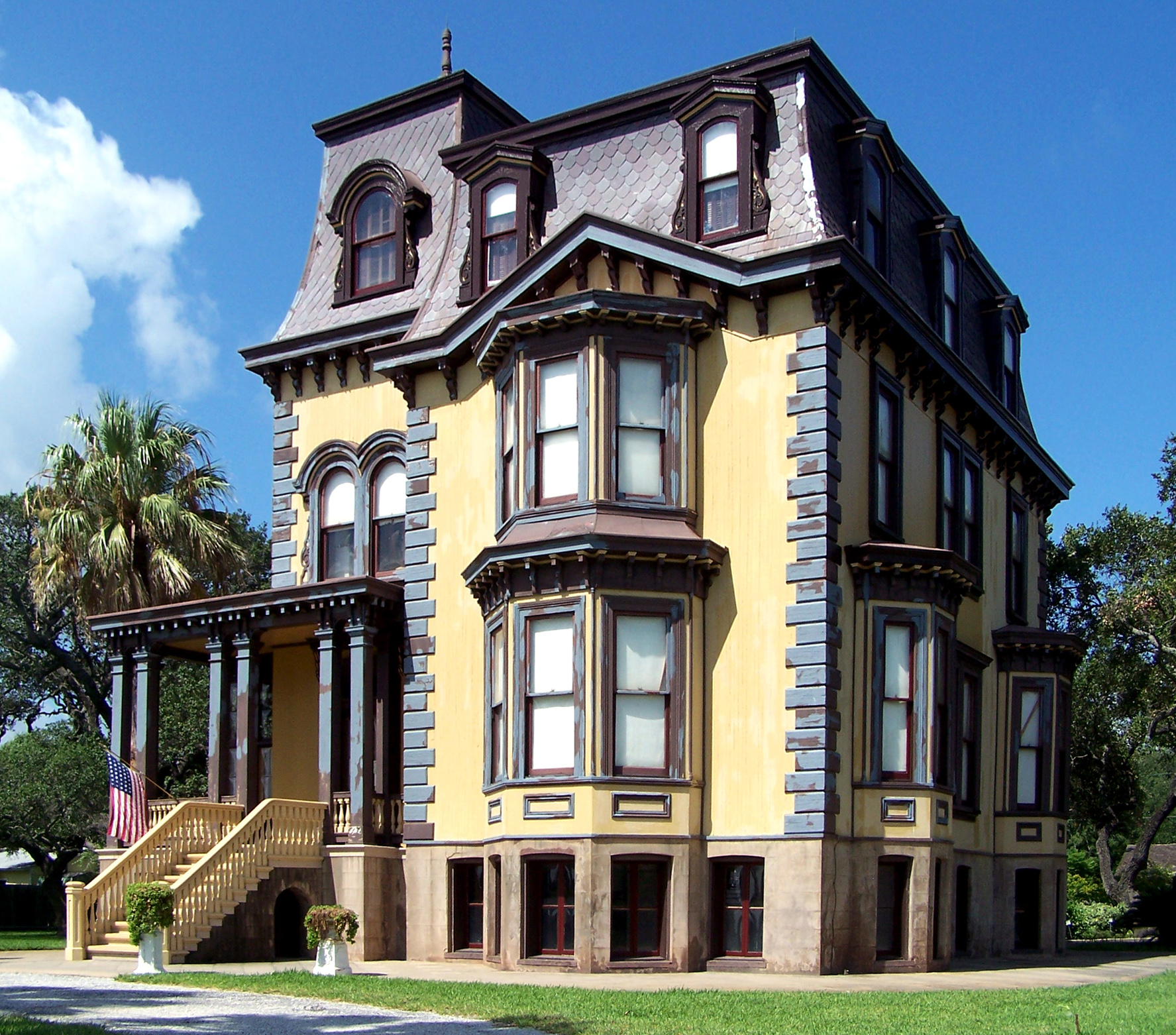 The George W. Fulton Mansion in Fulton, Texas, United States. The Second Empire style structure, built between 1874 and 1877, was designated a Recorded Texas Historic Landmark in 1964 and listed on the National Register of Historic Places on April 24, 1975.